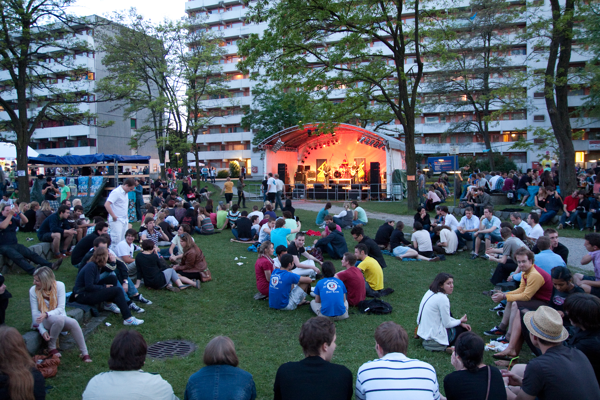 StuStaCulum, a yearly festival in Studentenstadt (Munich, Germany) organized by students.